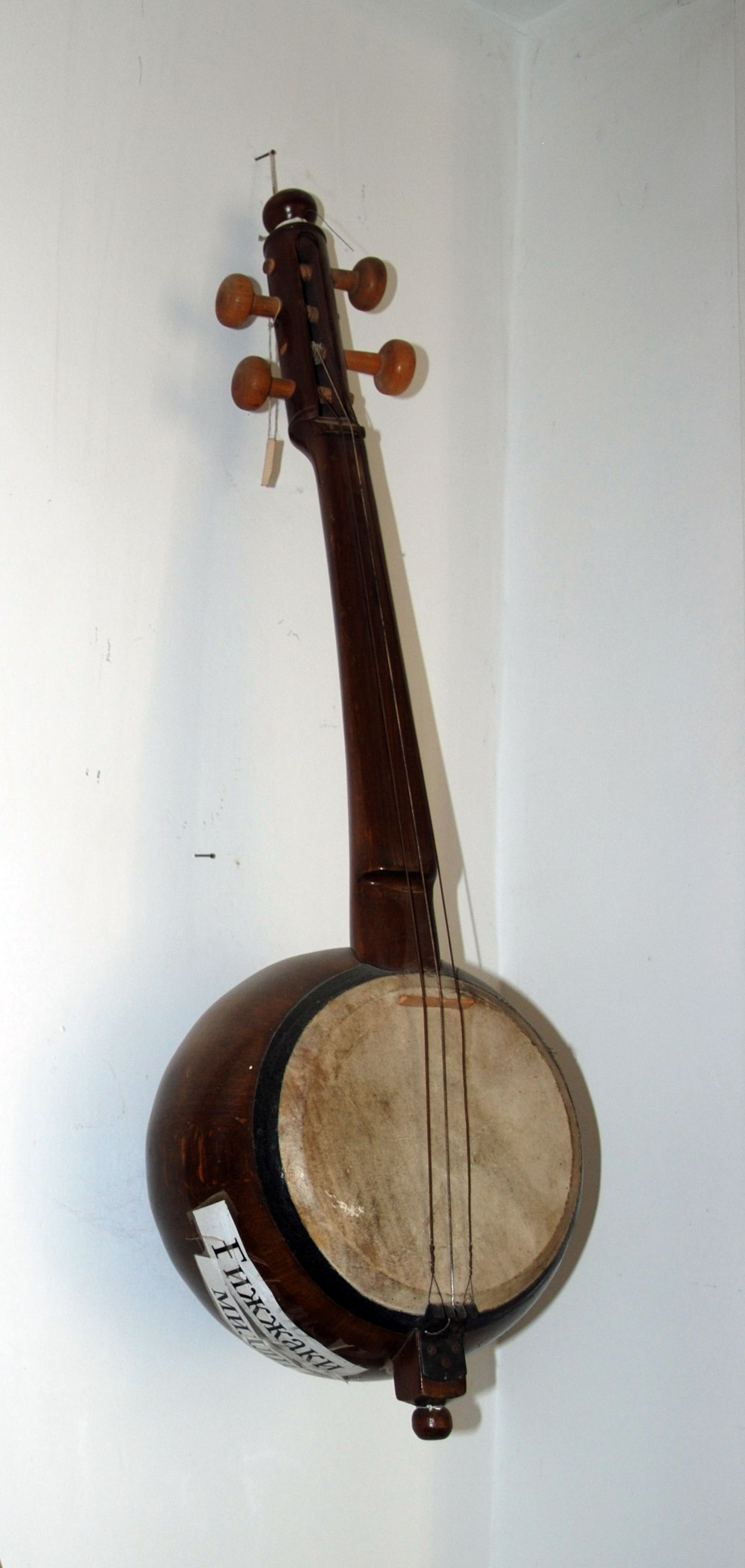 Ghaychak, Ziyadullo Shahidi Museum, Dushanbe, Tajikistan